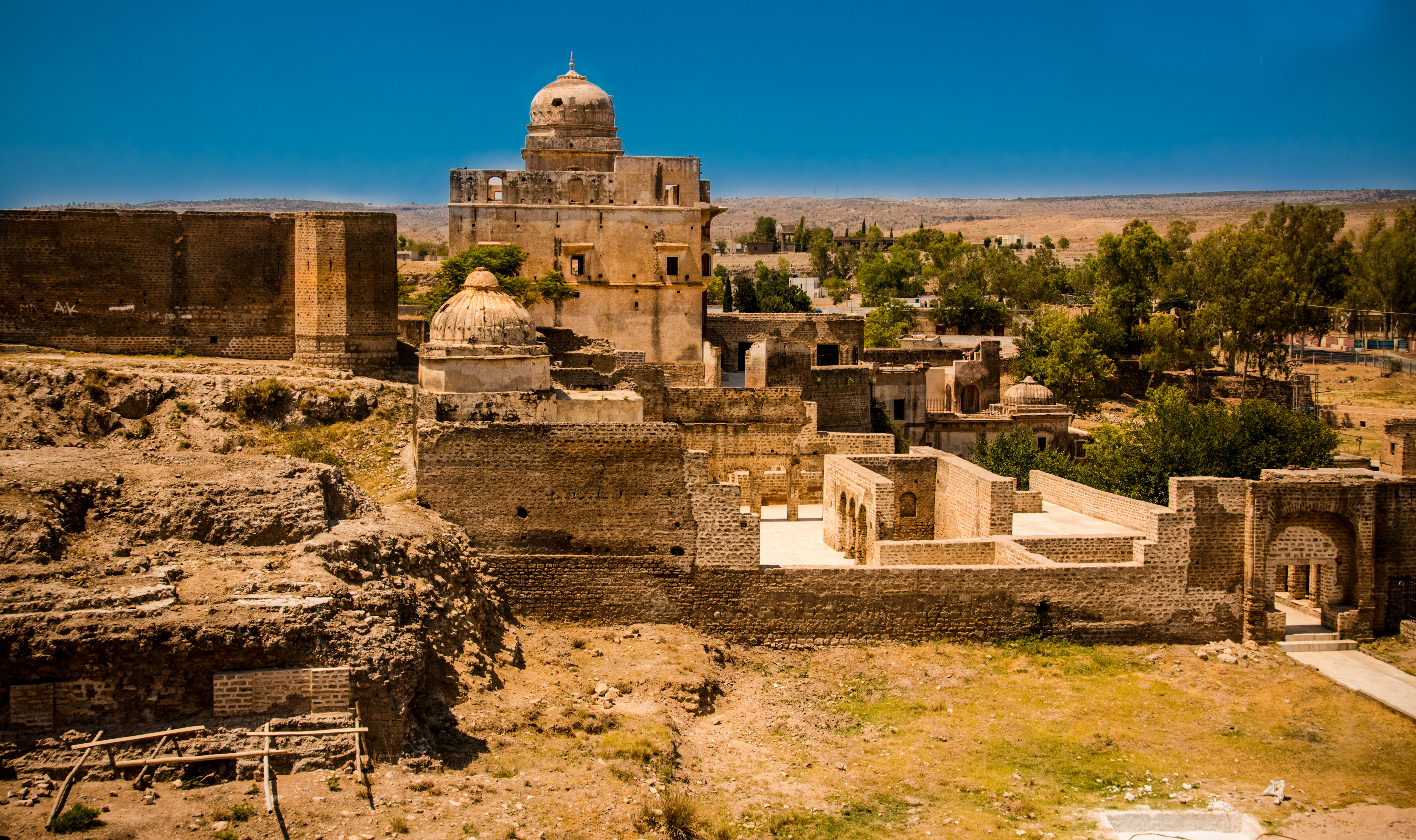 Katas Raj Temple